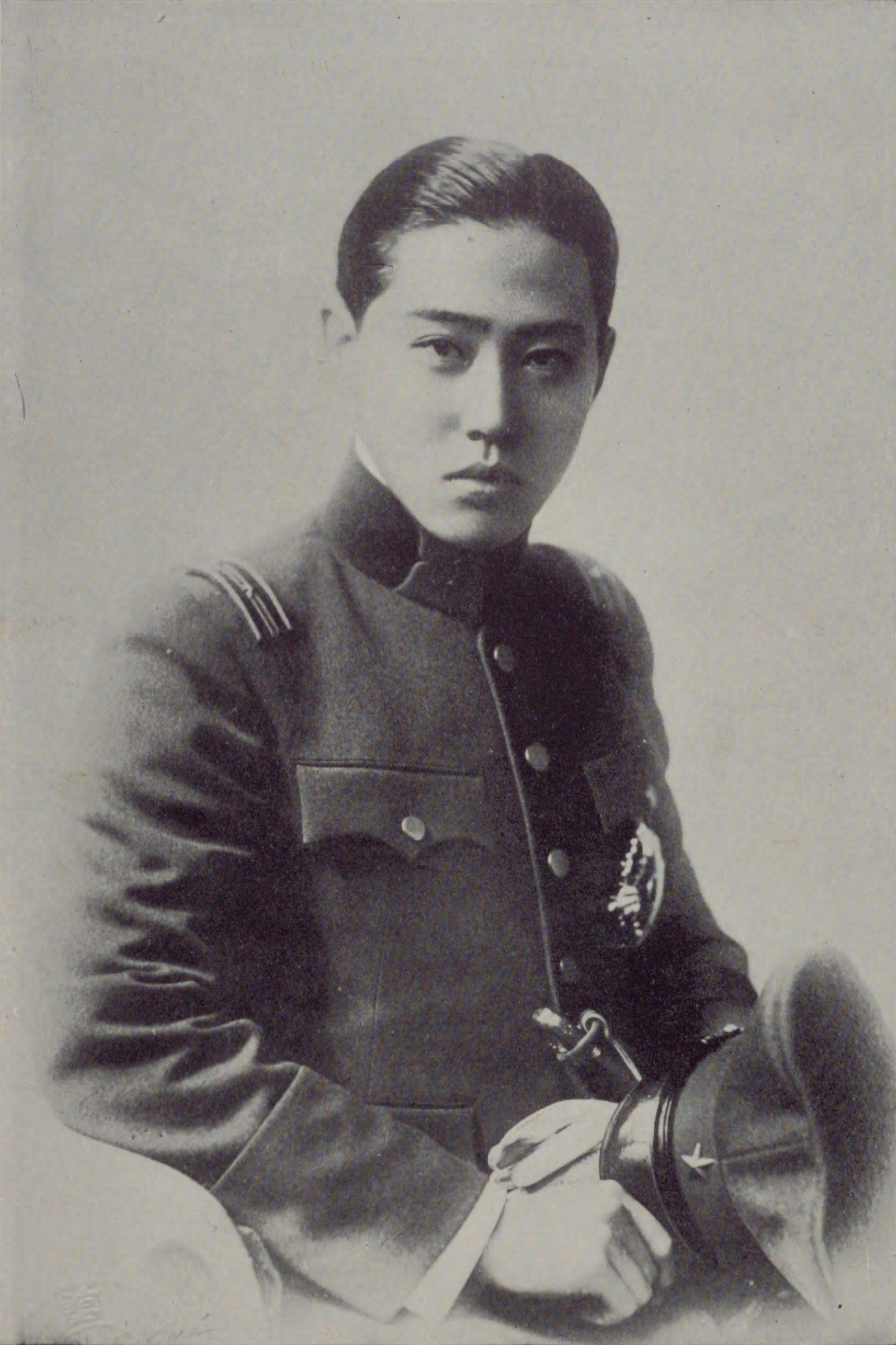 Prince Yi Wu of Korea under Japanese military service.